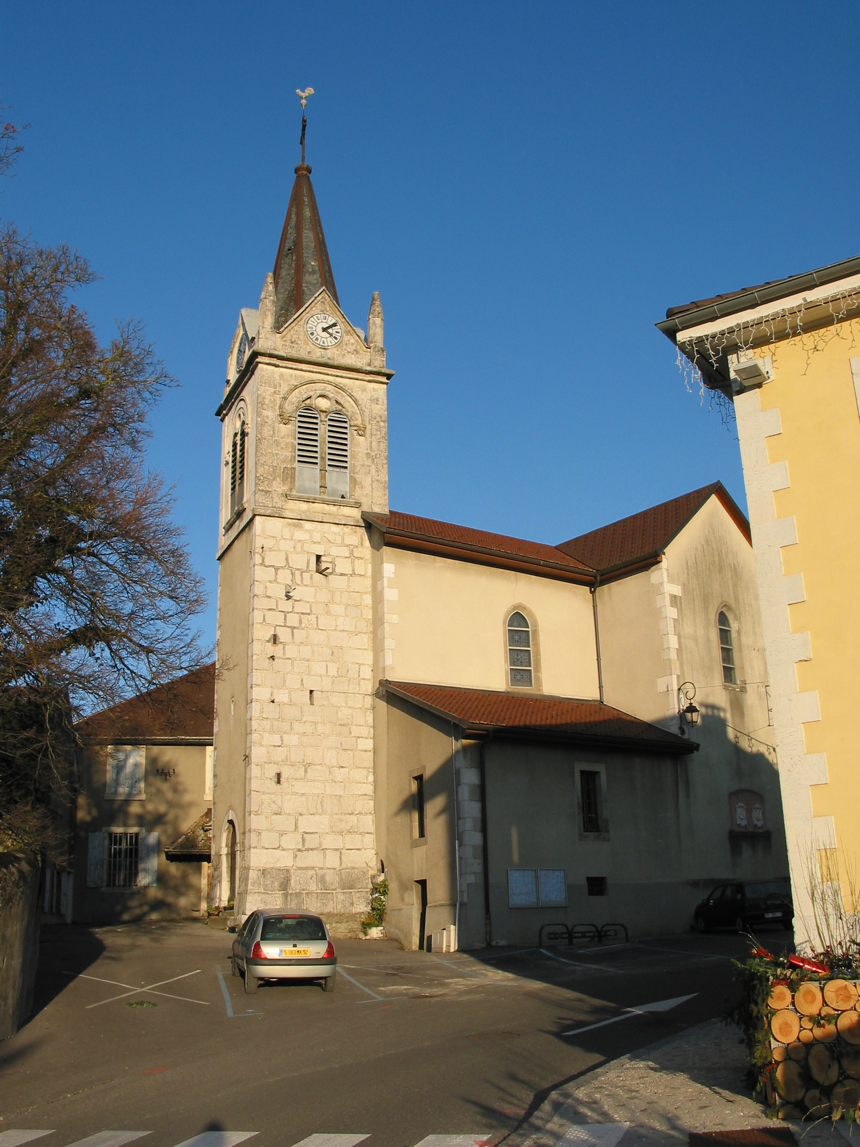 Church of Collonges-sous-Salève